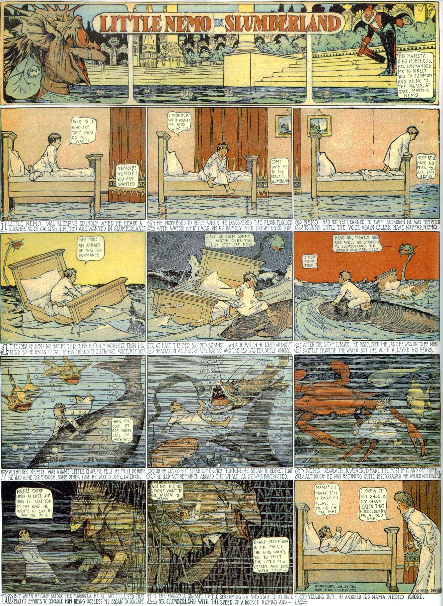 Little Nemo comic strip by Winsor McCay.